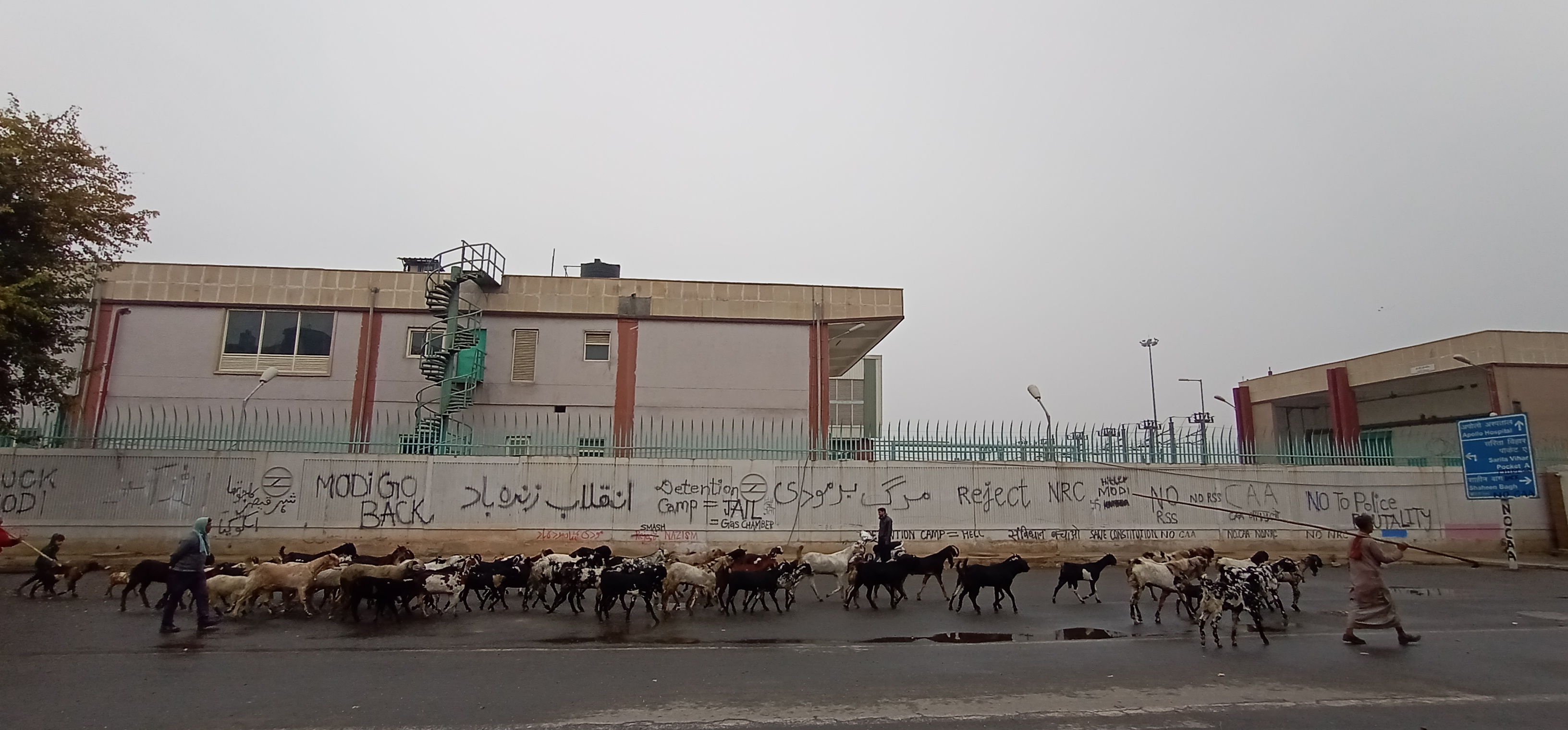 Anti NRC CAA Govt grafitti Shaheen Bagh New Delhi 8 Jan 2020